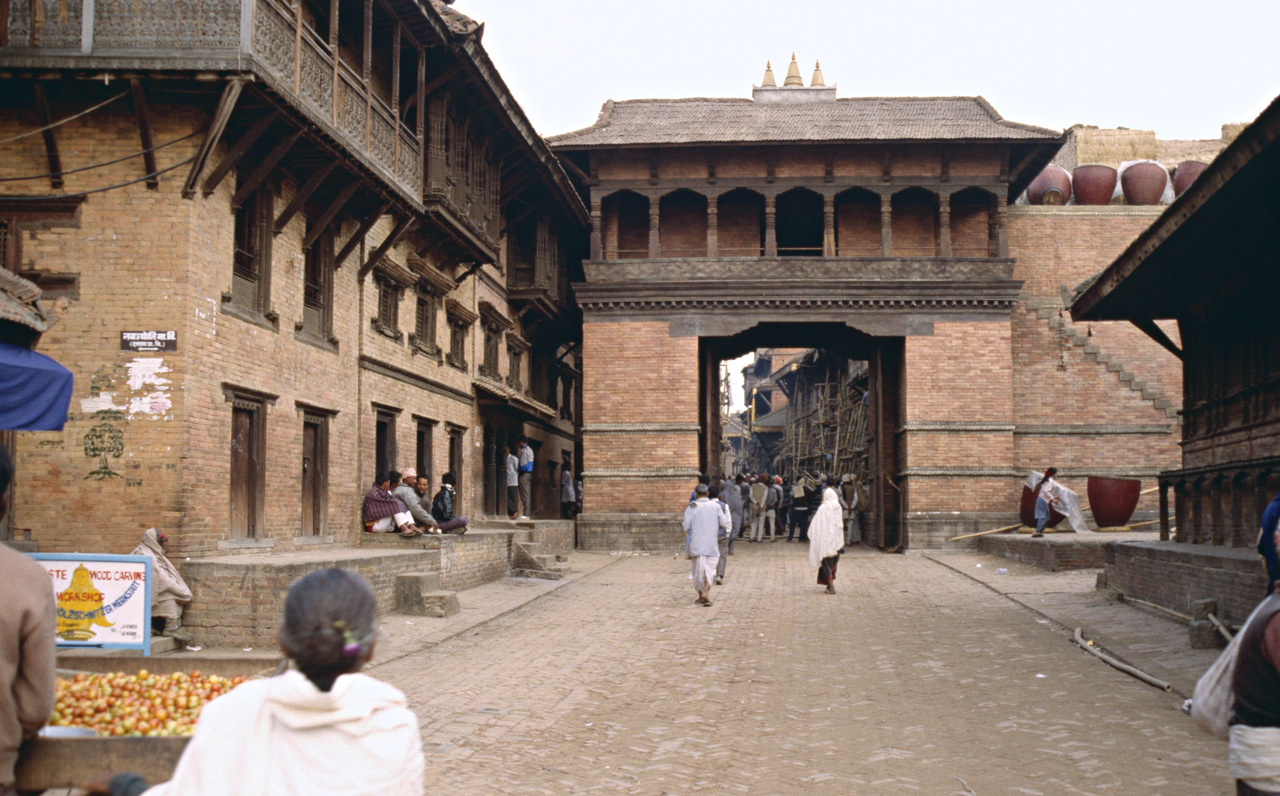 Film set in Bhaktapur, Nepal, of Bernardo Bertolucci's film "Little Buddha".